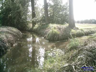 Mouth of "Kanal III C" into "Kanal III3b" near Oedt, Germany